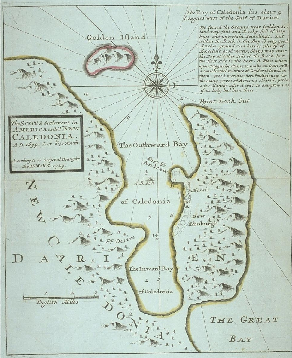 The Scots settlement in America called New Caledonia. A.D. 1699. Lat. 8-30 North. According to an original draught by H. Moll G. 1729. - Map of the Bay of New Caledonia in Darién, Panama.